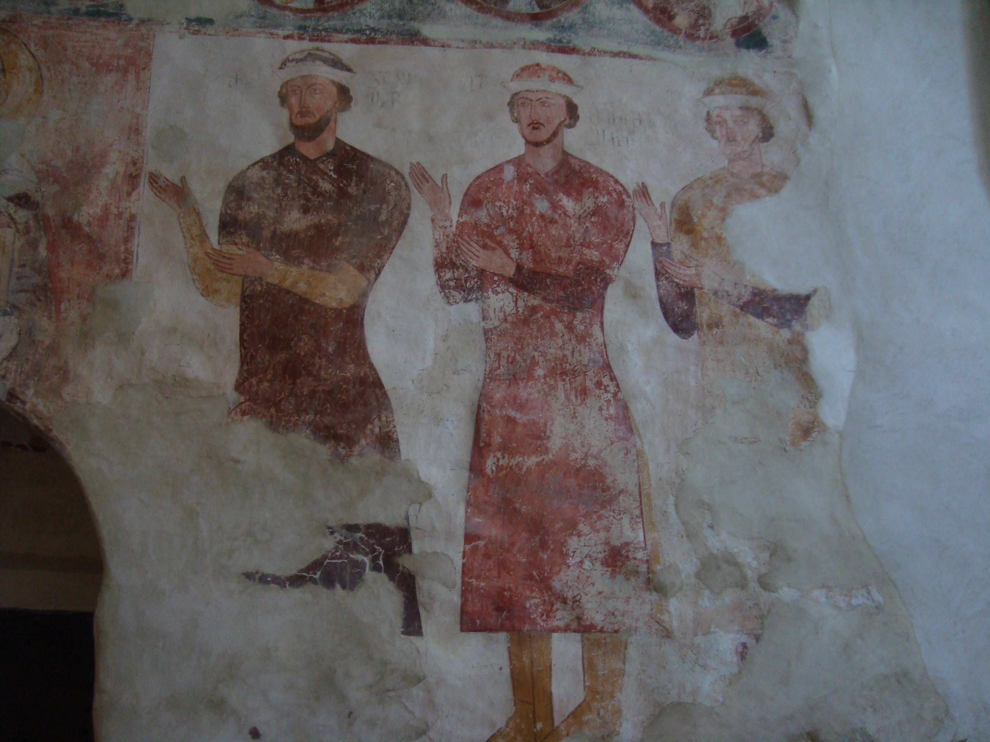 A fresco depicting the Charelidze, ducal family of Racha, in the Church of Crucifixion of Sori, Georgia. The inscription as rendered in modern Georgian alphabet reads: [ქ. შევამკეთ ესე ეკლესია. მრავალძლის] წმინდა გიორგის [შეწევნი]თა მღვდელმსახ[ურთა და] ჭარელისძე გ(იორგ)ი [ს(ით)ა]. [ხელითა ფ(რია)დ ცოდვი[ლისა და] ვითისისა და მნათეს შ[ვი]ლისა და ბი[ნცა] შ[ანდო]ბა ბრძანაო[თ], [თქვენცა] შეგინ[დვნეს] ღ(მერ)თმან.